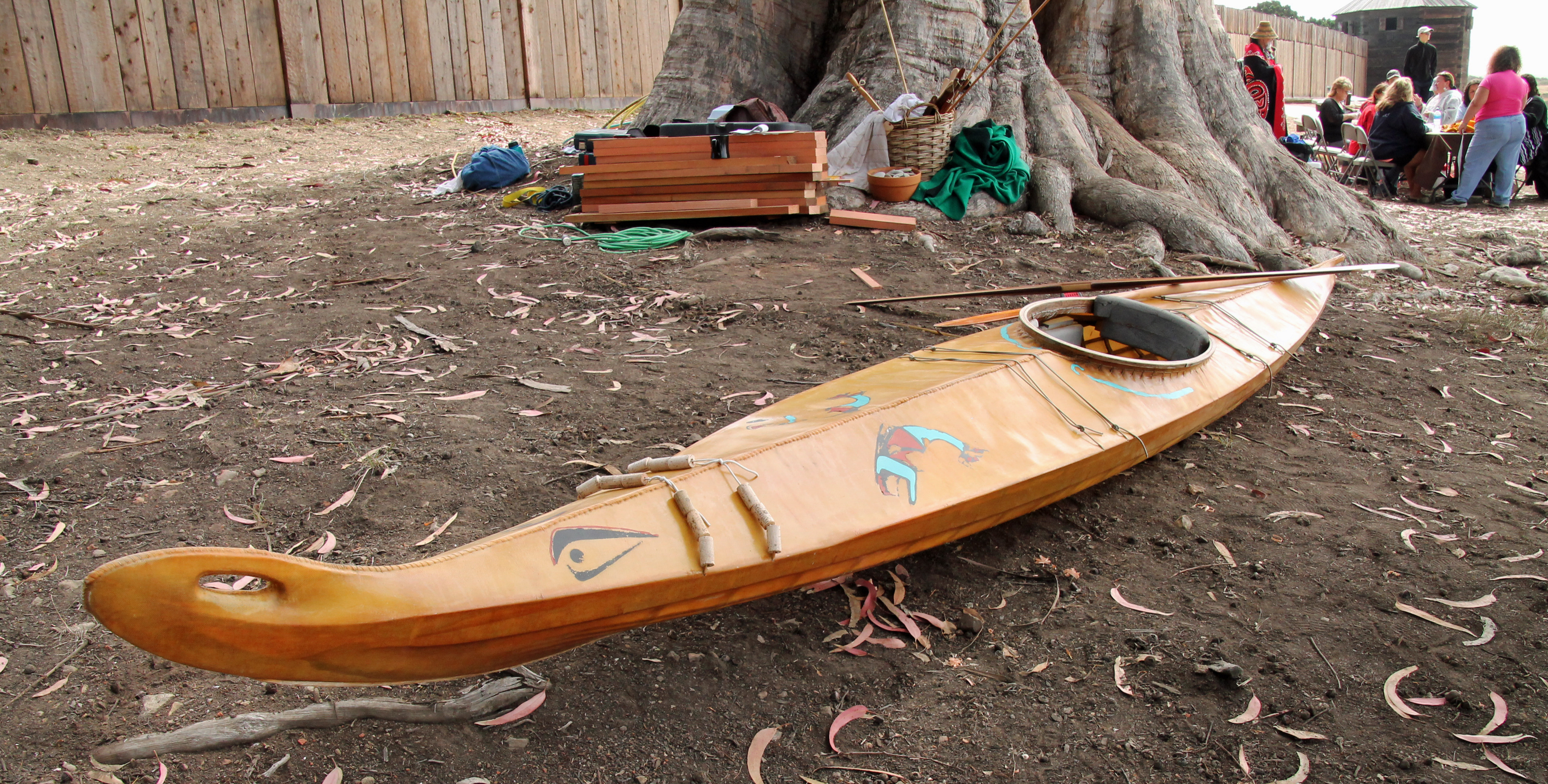 2015 Fort Ross Festival, Fort Ross State Historic Park, California